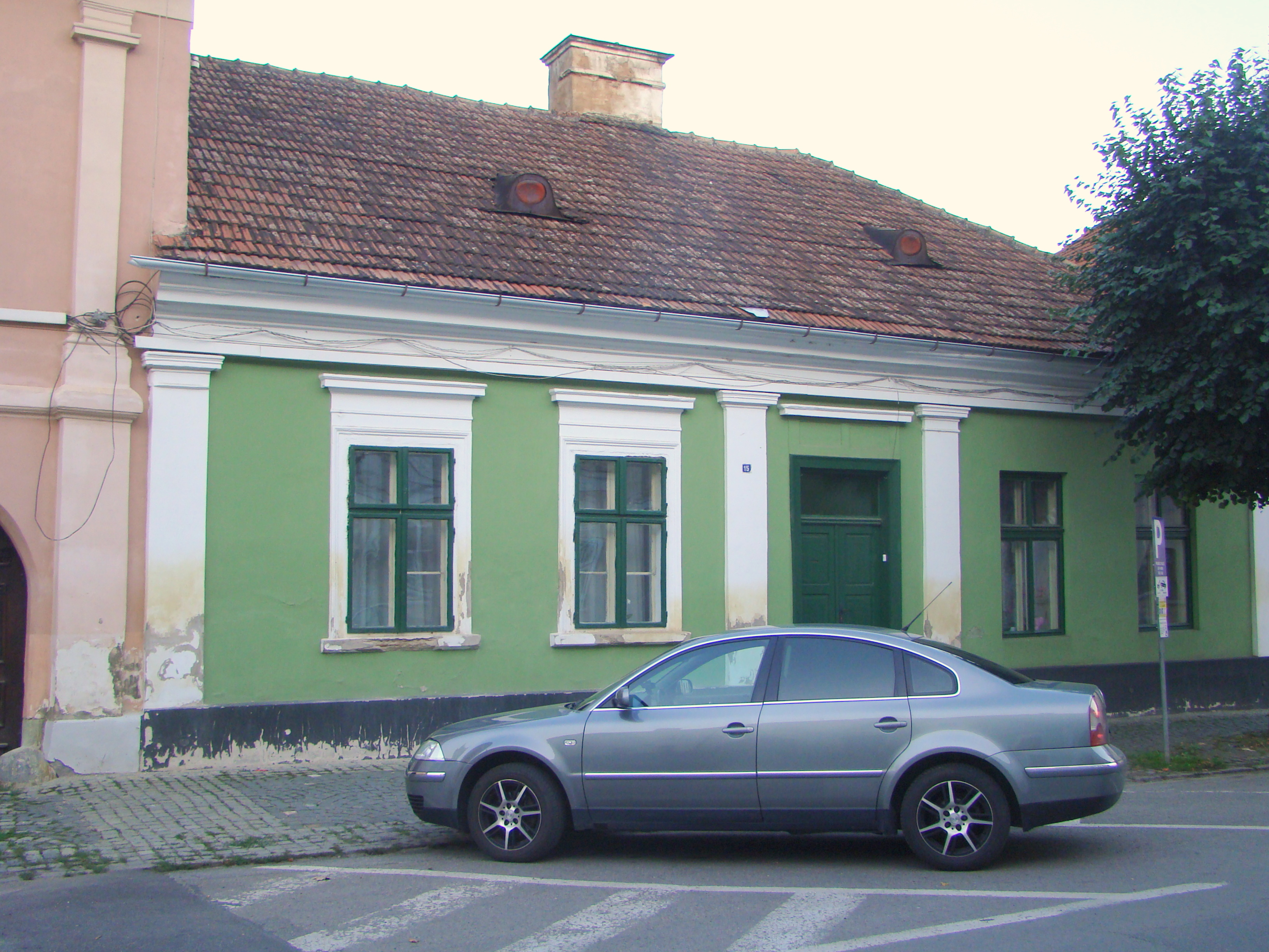 House, historic monument, in Bistrița, Nicolae Titulescu street 15